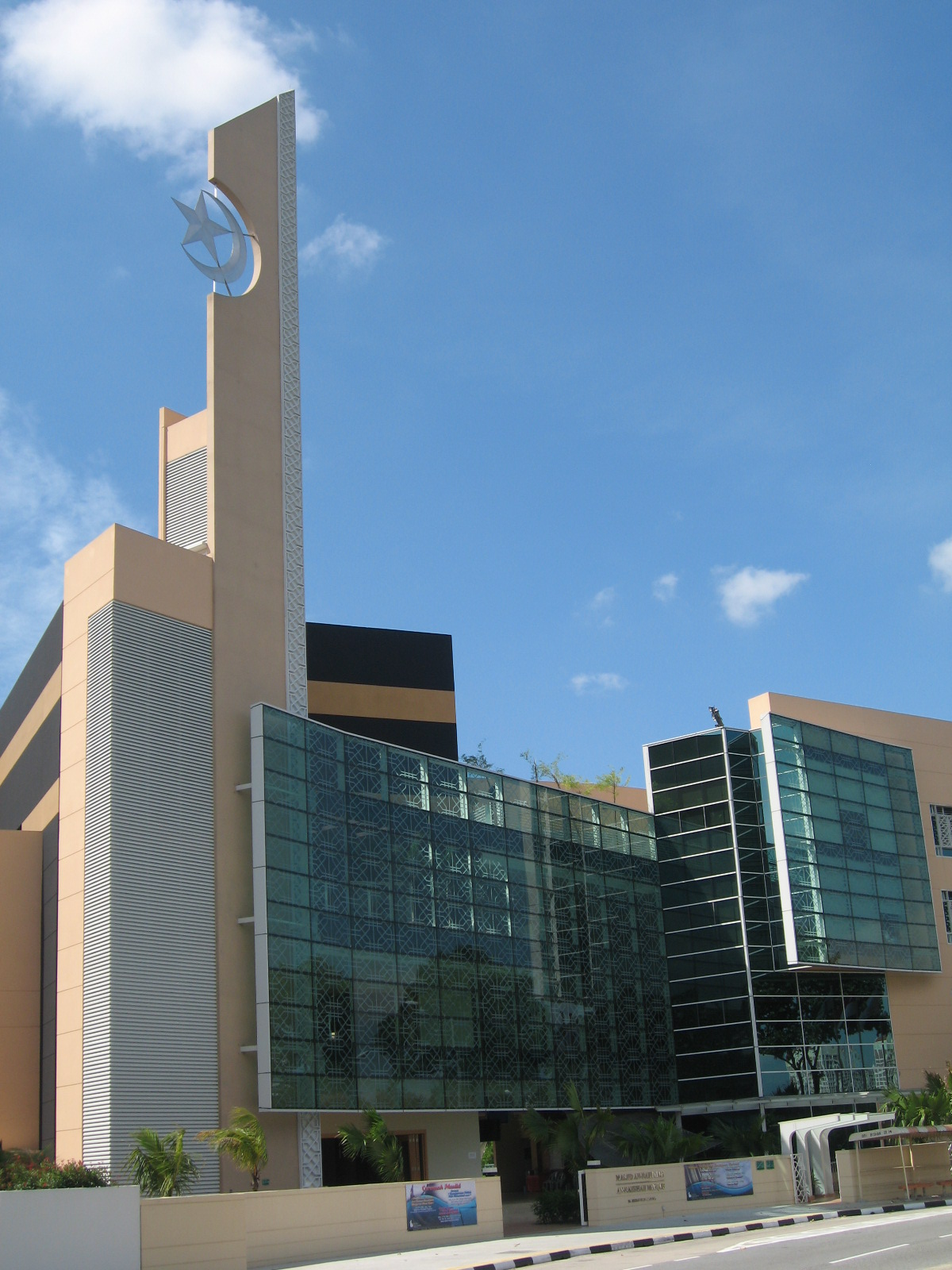 Masjid An-Nahdhah.